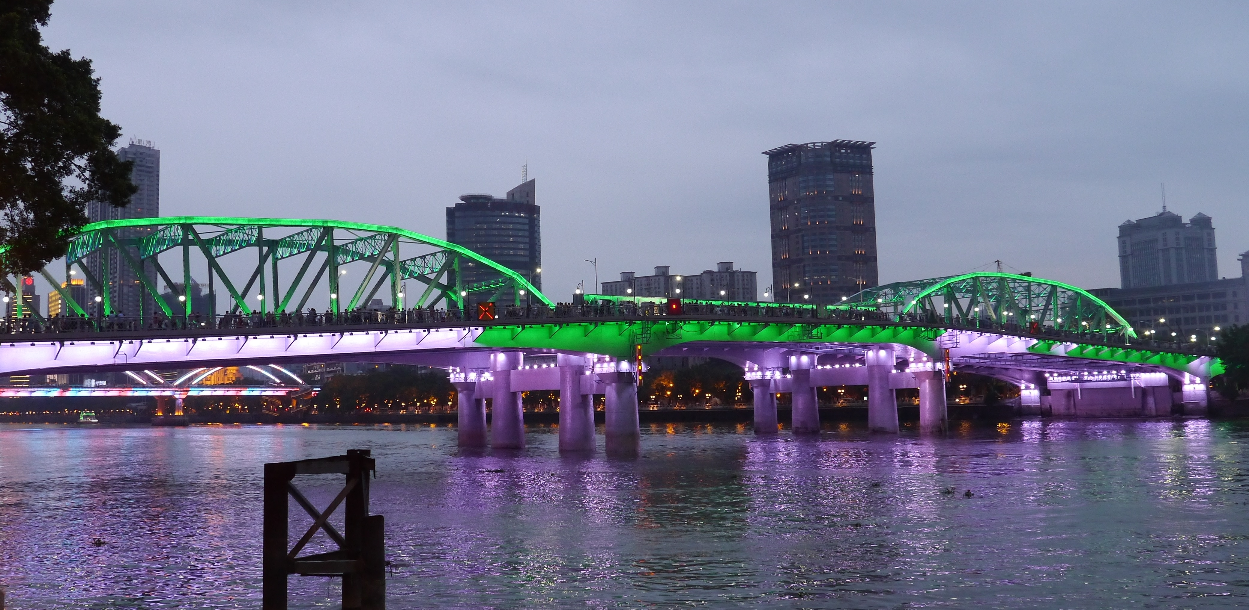 Haizhu Bridge after the maintenance in 2013